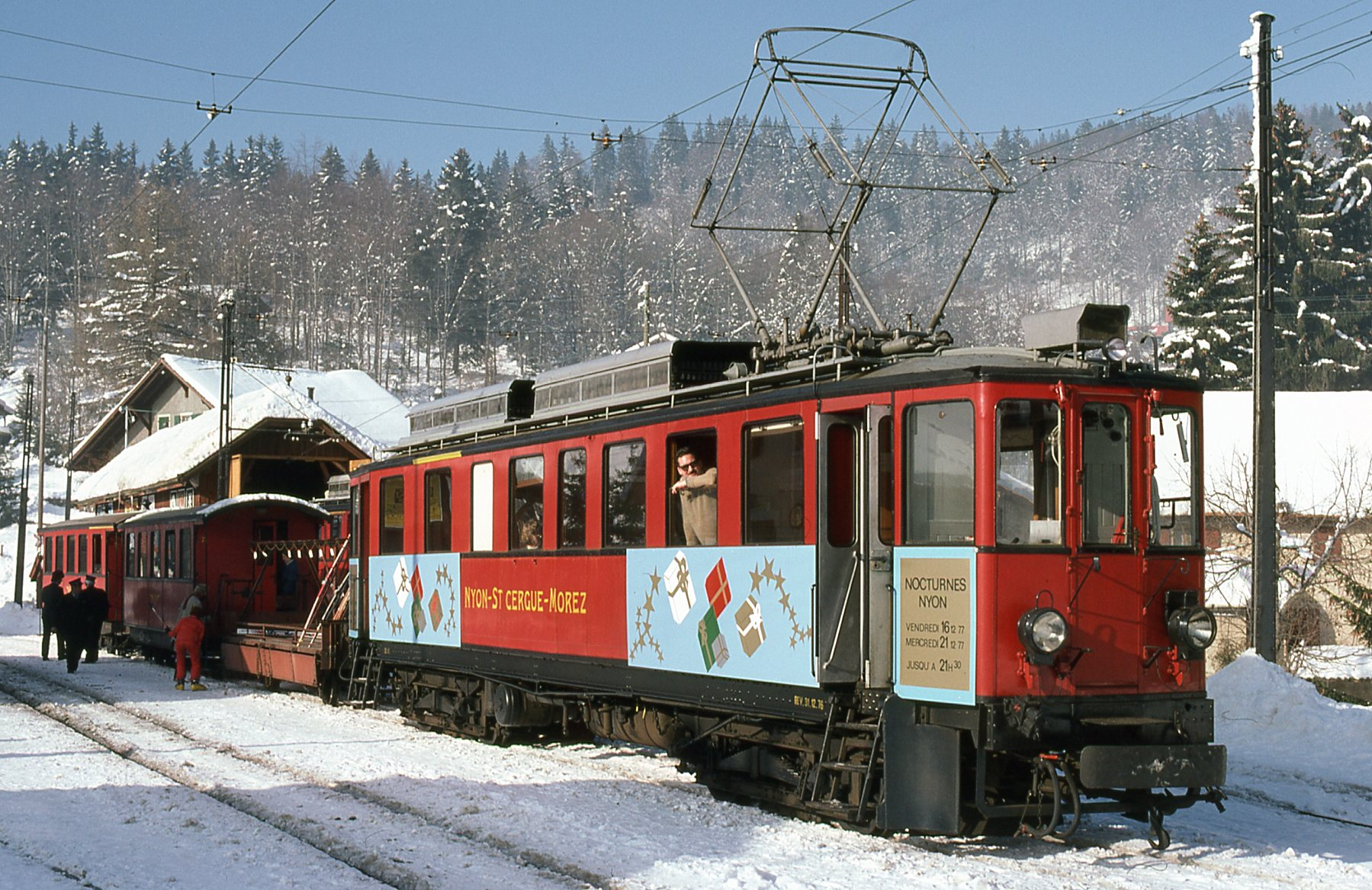 Narrow gauge railway Nyon–Saint-Cergue–La Cure (between 1975 and 1985)